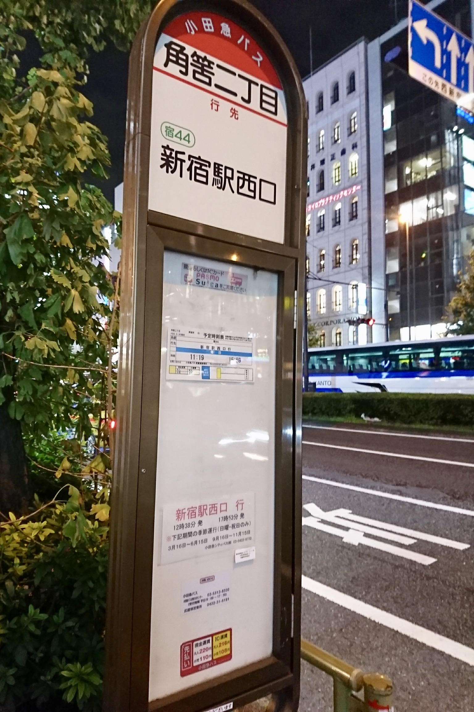 A Tsunohazu-2chome busstop(Odakyu-bus)